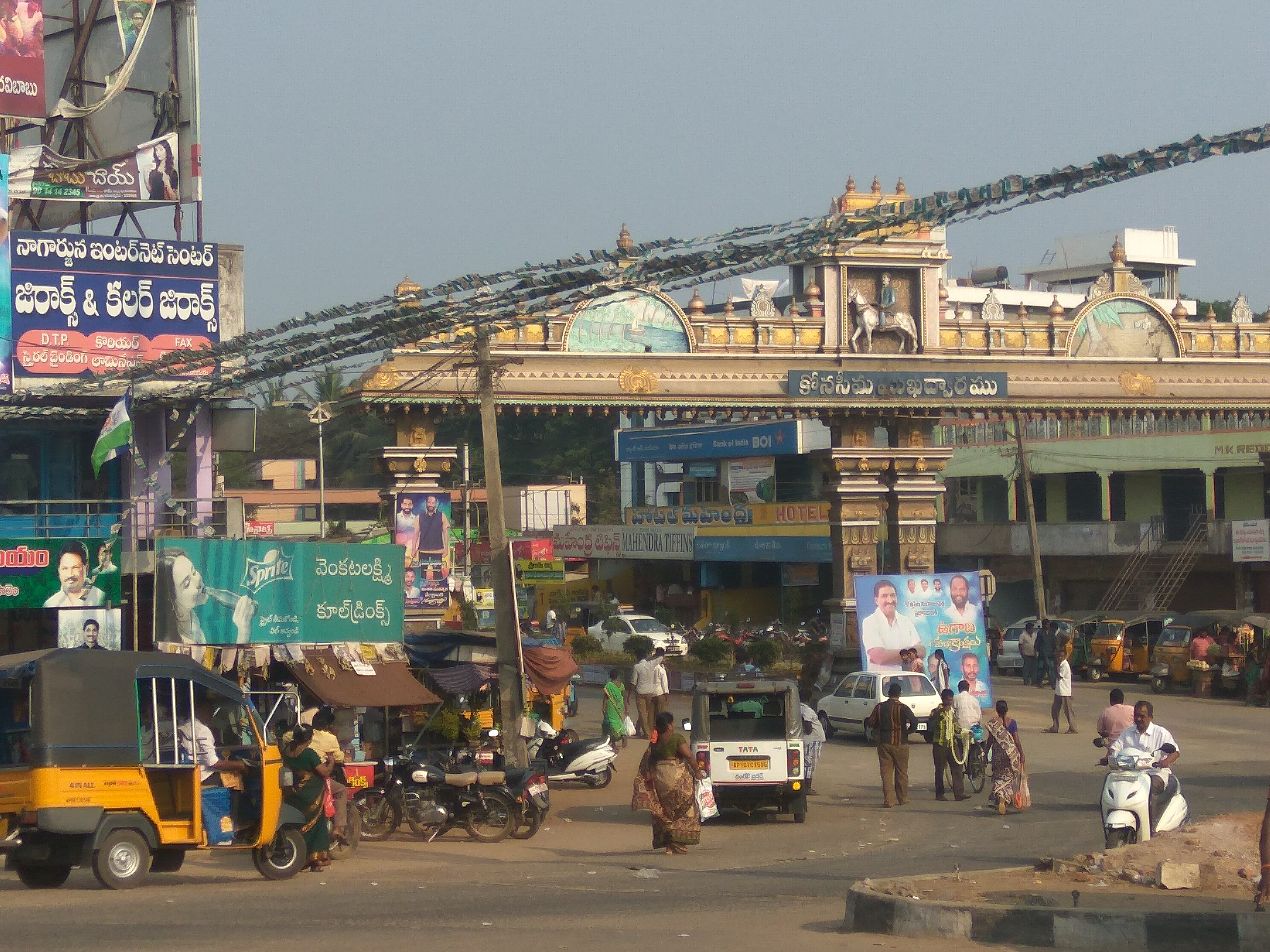 Entrance to Konaseema region